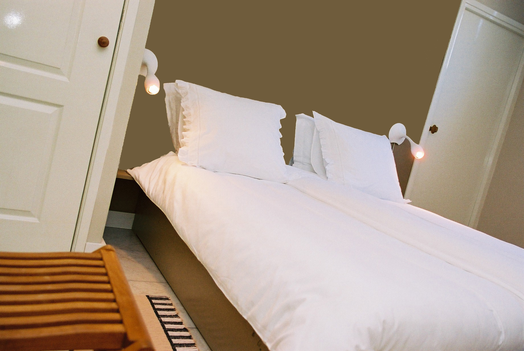 B&B Bedroom